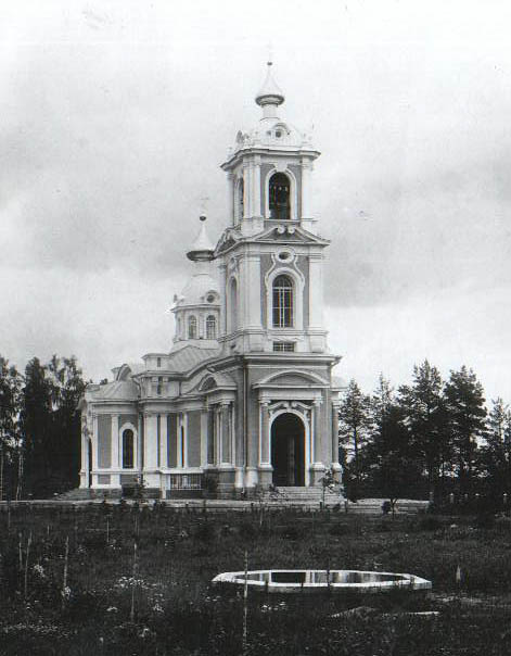 Seraphim of Sarov church at the Seraphim skit of the Alexander Nevsky Lavra, Zascherenye (now Tolmachyovo), Leningrad oblast. The architect Lev Shishko